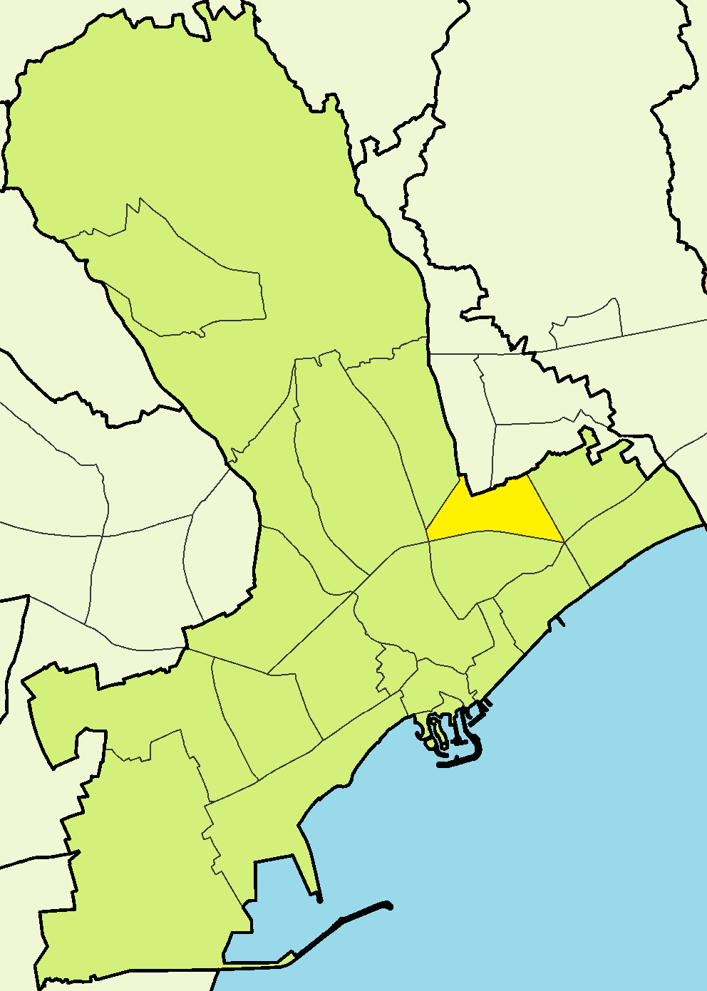 Agios Nektarios in Limassol Municipality